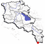 Location map for Agarak, Armenia.